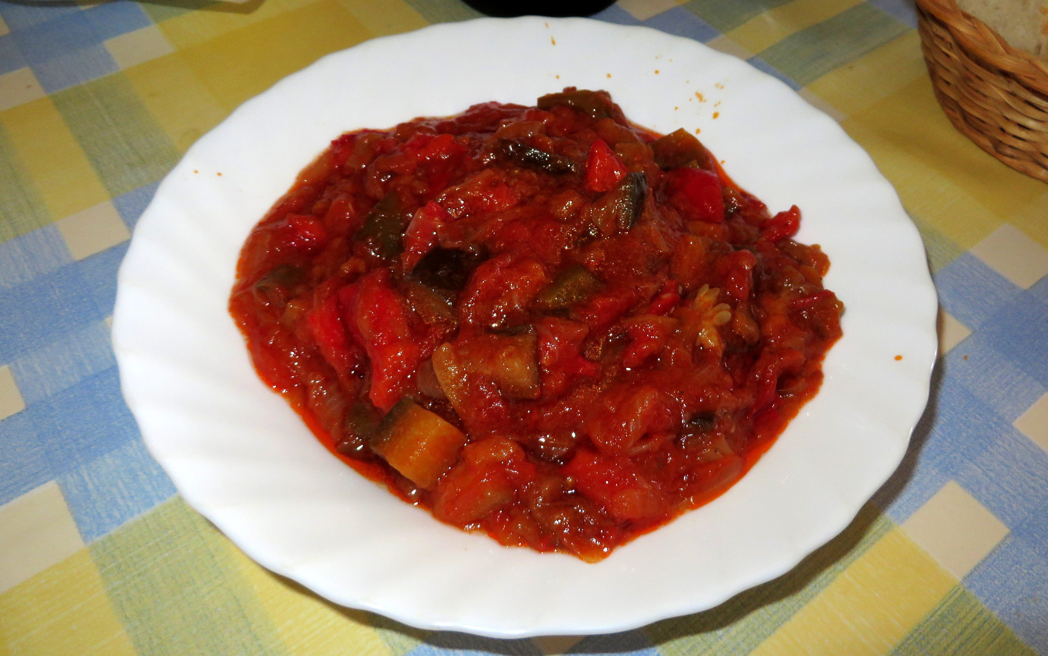 Pisto murciano